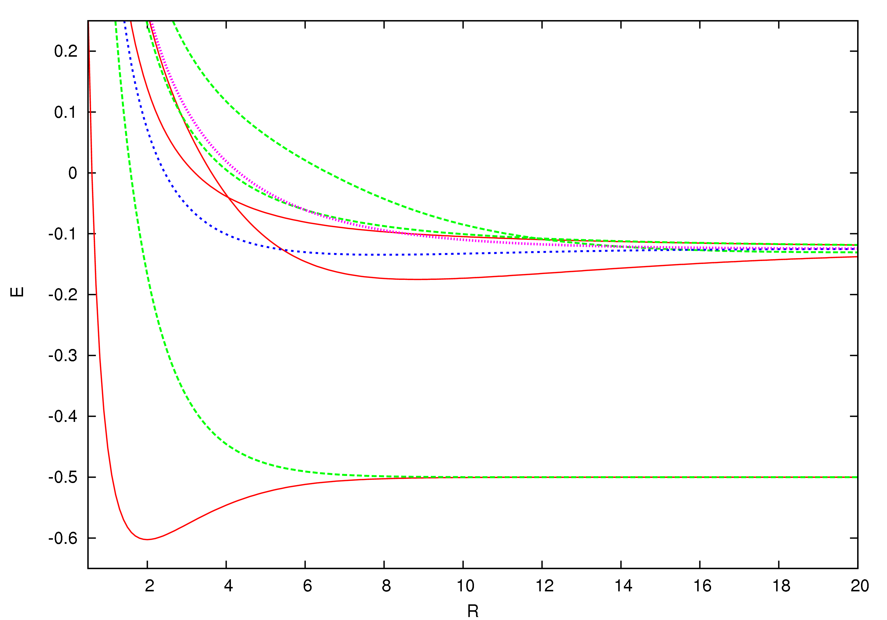 lowest energy levels of H2+